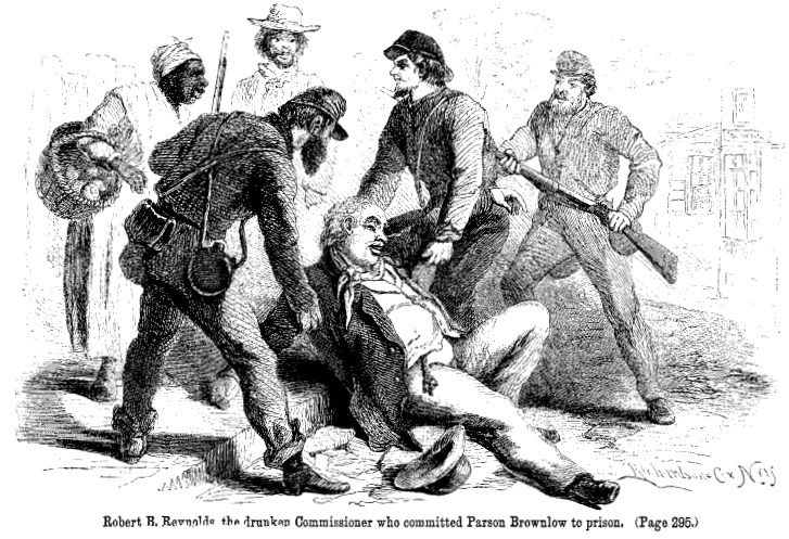 Engraving from William G. Brownlow's Sketches of the Rise, Progress, and Decline of Secession, depicting Knox County Confederate Commissioner Robert B. Reynolds as too intoxicated to walk, and requiring help from Confederate soldiers, in Knoxville, Tennessee, USA, at the outbreak of the Civil War in late 1861.